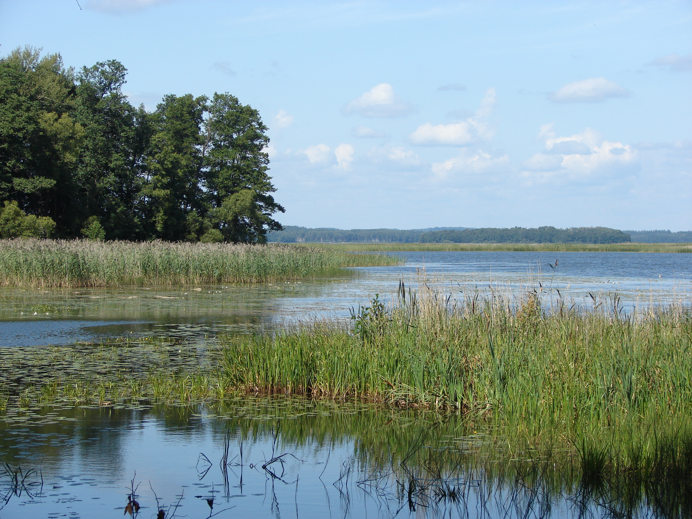 Rušons Lake near JaunaglonaLatviešu: Rušons pie Jaunaglonas